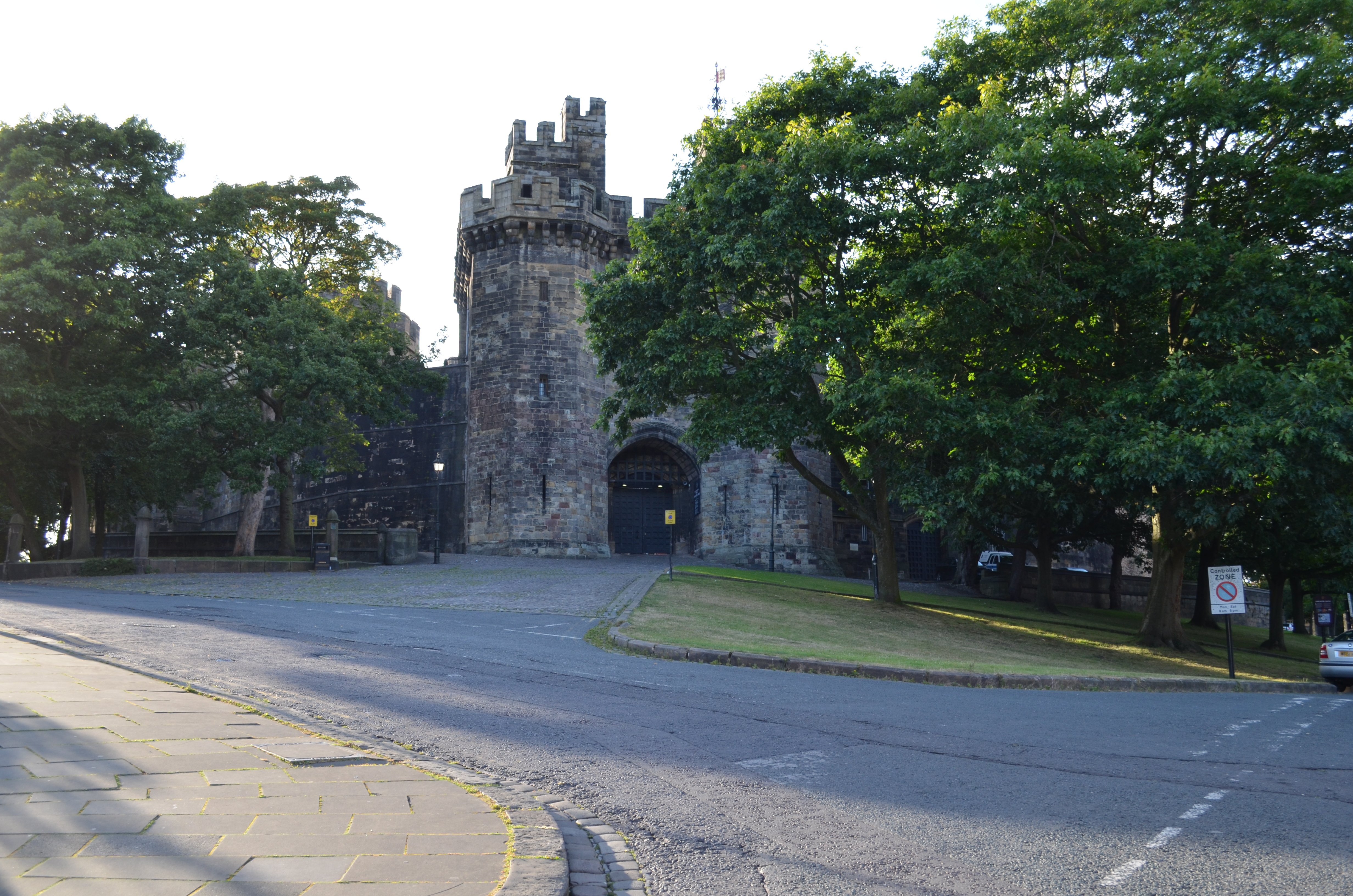 The main entrance to Lancaster Castle in North-West England, taken in late July 2014